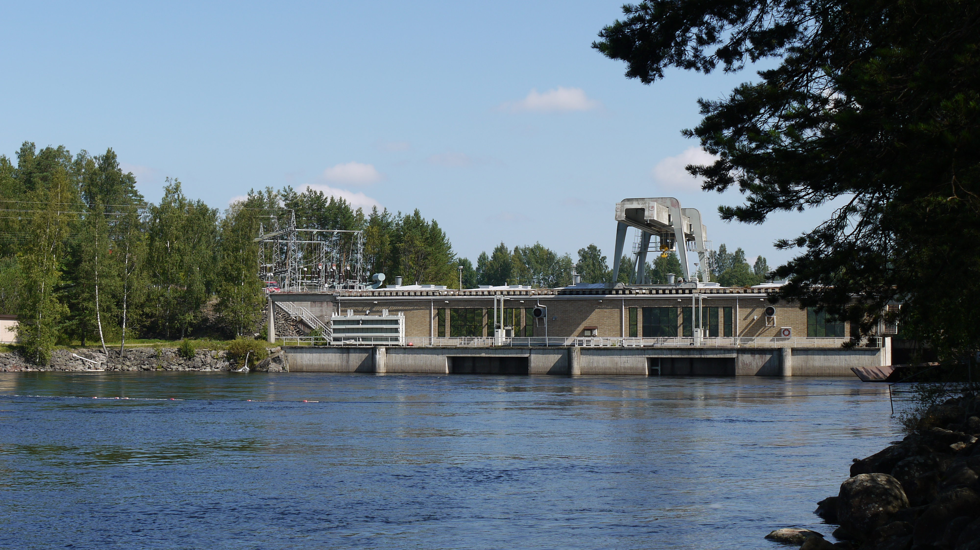 Vuolenkoski hydroelectric dam in Iitti, Finland in July 2016.